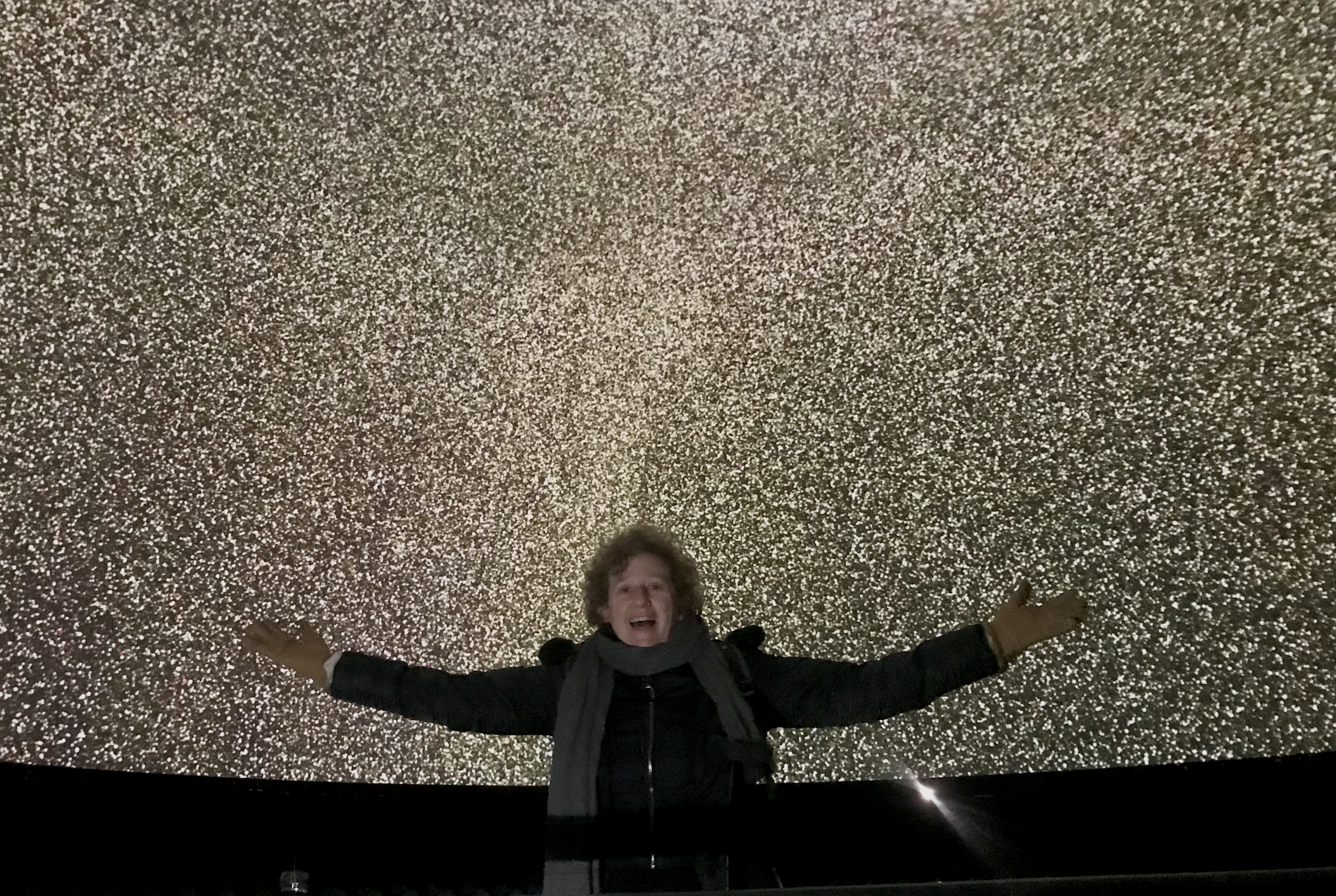 In December of 2019, Prof. Alyssa Goodman and graduate student Catherine Zucker, of Harvard University, visited the Hayden Planetarium at the American Museum of Natural History (AMNH) to "see" the "Radcliffe Wave" on the planetarium dome. The pair were invited by Dr. Jackie Faherty, Senior Scientist & Educator at AMNH, after she, Goodman, and others from AMNH saw hints (at a June 2019 meeting at Schloss Dagstuhl) of how combining their groups' data and software tools could do on flat screens, and wondering how that would look on a giant curved dome screen. More information on the "Radcliffe Wave" will be released to the public in January 2020, when the paper about it (by Alves, Zucker, Goodman, Speagle, Meingast, Robitaille, Finkbeiner, Schlafly, and Green) is published in Nature. The key software tools running during the photo were OpenSpace, glue, and WorldWide Telescope.